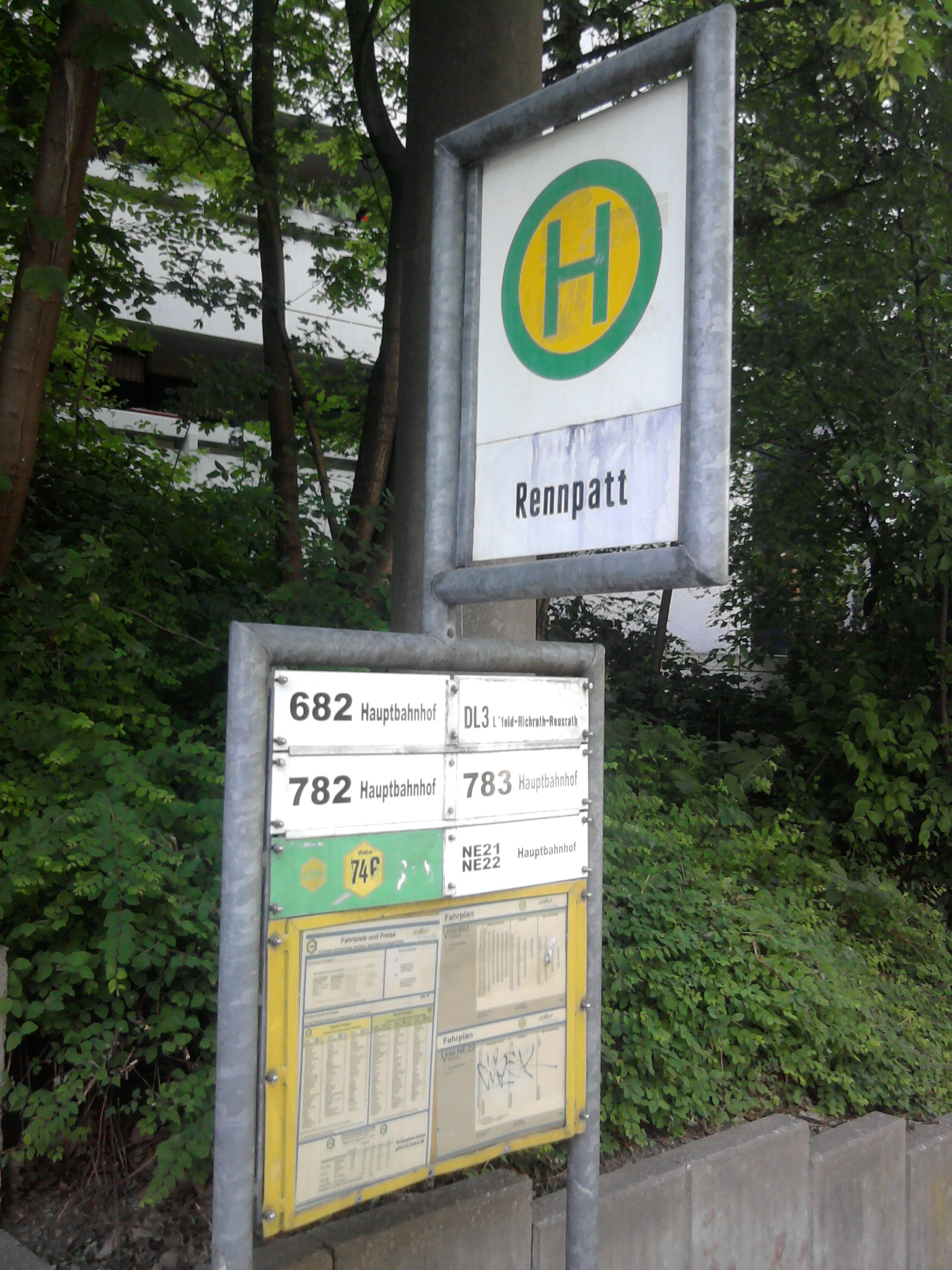 Bus stop Solingen Rennpatt